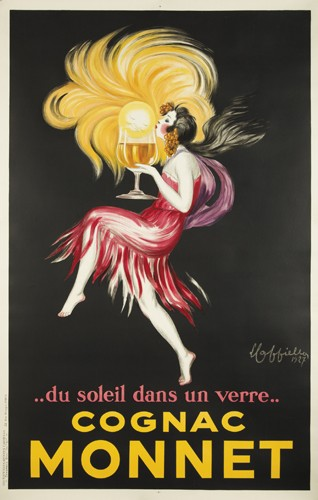 Poster Cognac Monnet